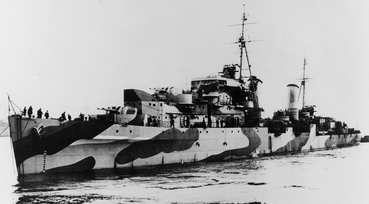 HMS Charybdis (80)